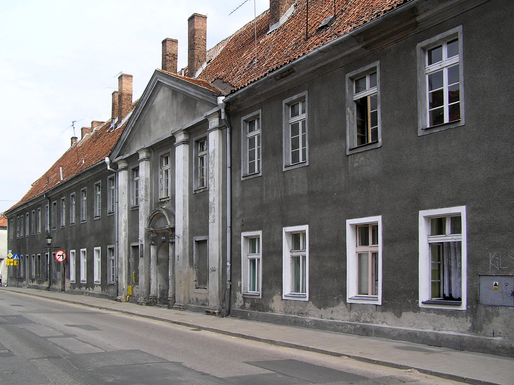 Chełmno, barracks of cadet corps, built at the end of the 18th century